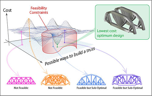 Roman Polyak is a leading expert on nonlinear rescaling, a mathematical approach that he developed for solving constrained optimization problems that has found use in fields ranging from structural engineering to medicine. One of the leading applications for nonlinear rescaling is the design of trusses, the complex metal frameworks that support many of the critical components of our built environment such as bridges, electrical transmission lines and radio towers. This illustration shows a mathematical plot pitting cost against the almost countless ways truss cross-beams can be arranged. The goal is to find the optimal arrangement that can be constructed at the lowest cost, while still supporting the enormous weight loads of both the equipment mounted to the truss and the truss itself. To learn more about using abstract mathematics to solve real world problems, Credit: Zina Deretsky, National Science Foundation